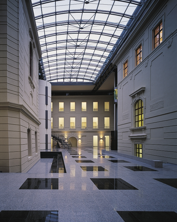 Rector's office in Antoninska Street